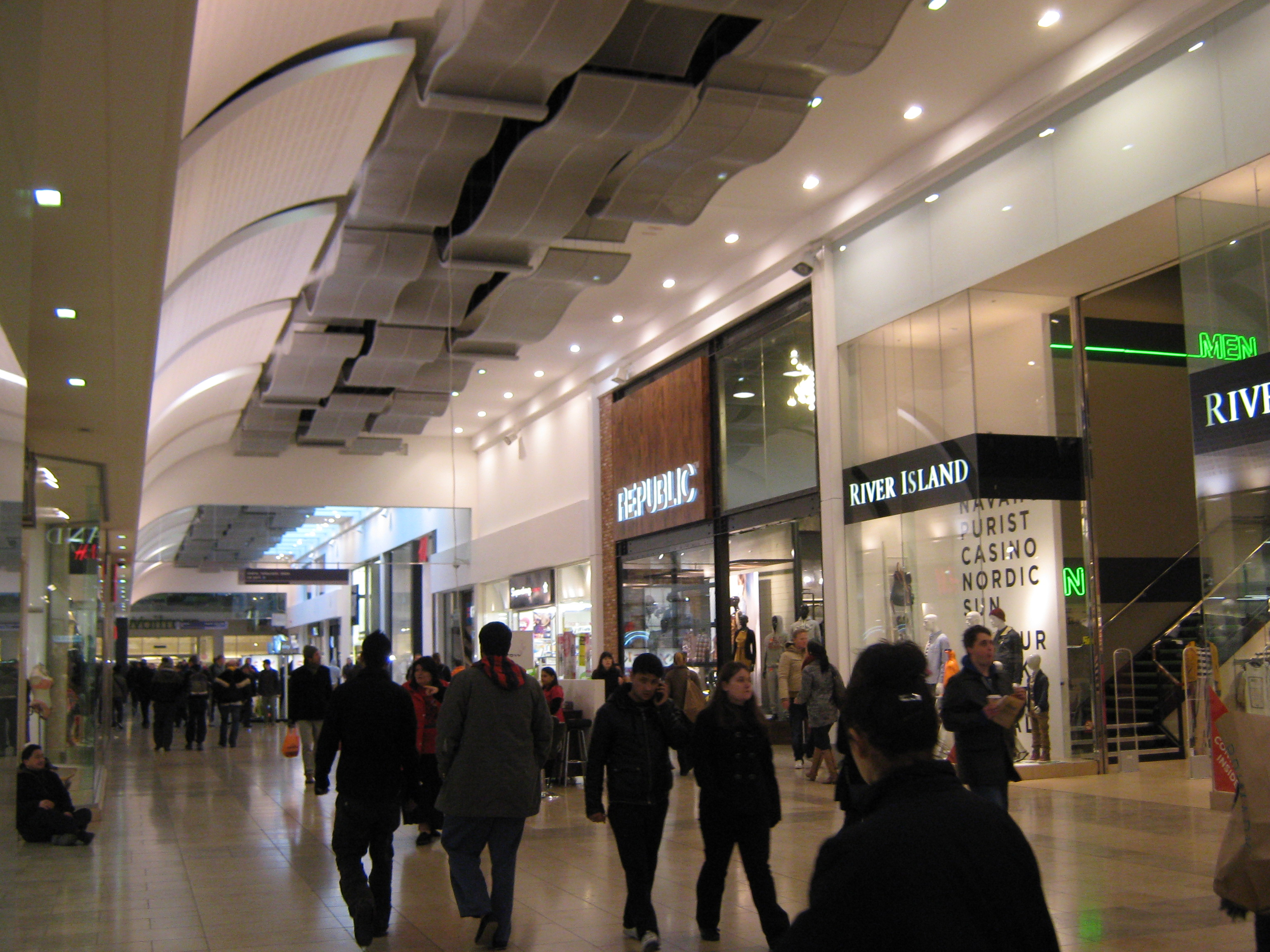 New section of the Southside Wandsworth shopping centre illustrating the partial introduction of modern retail units with double height frontages